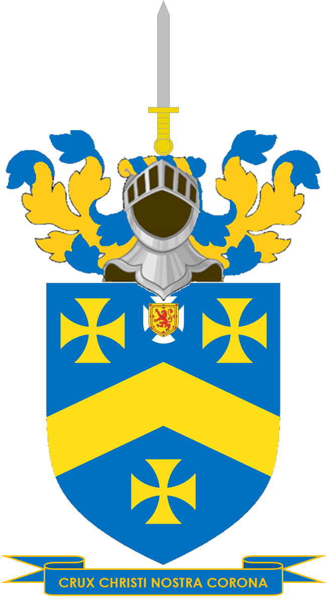 The armorial achievement of the Barclay baronets of Pierston.